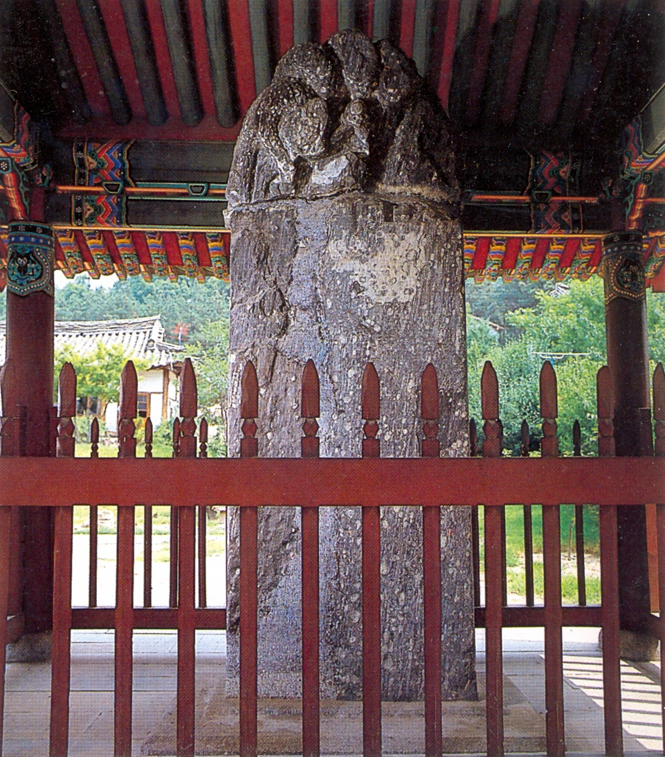 Monument of Yu Inwon from Tang Dynasty in Buyeo, Korea